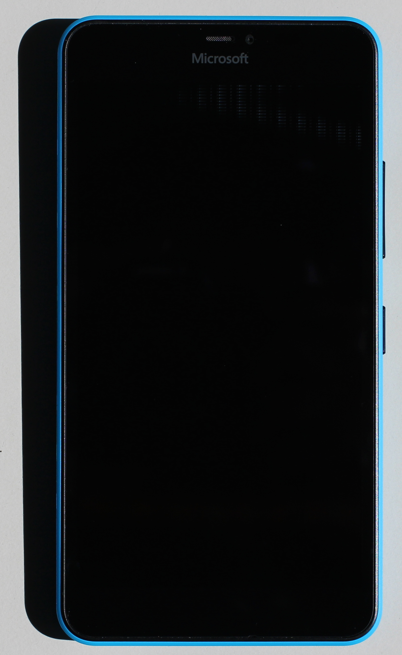 Photo of the Microsoft Lumia 640 XL smartphone